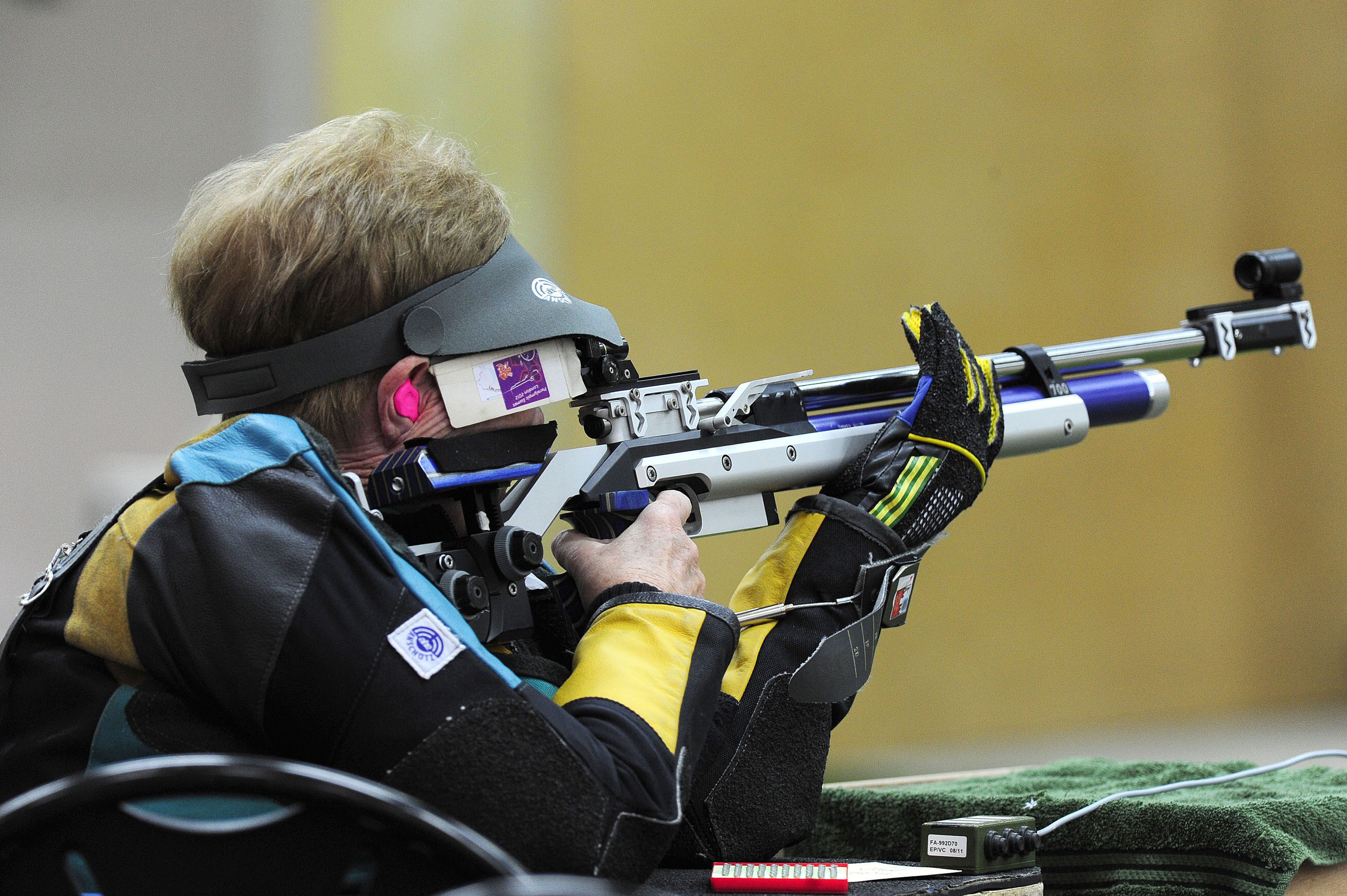 Photograph of Australian Paralympic team member Libby Kosmala at the 2012 Summer Paralympic Games in London